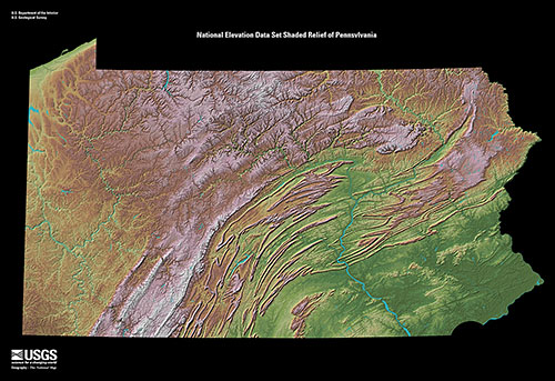 Shaded relief map of the U.S. state of Pennsylvania. From the United States Geological Survey (USGS)